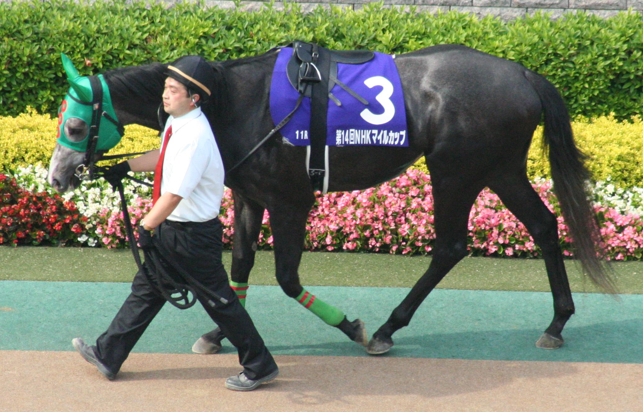 Jo Cappuccino(Horse)